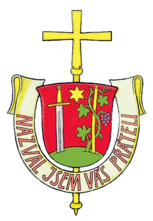 Coat of arms of Old Catholic Bishop Pavel Benedikt Stránský